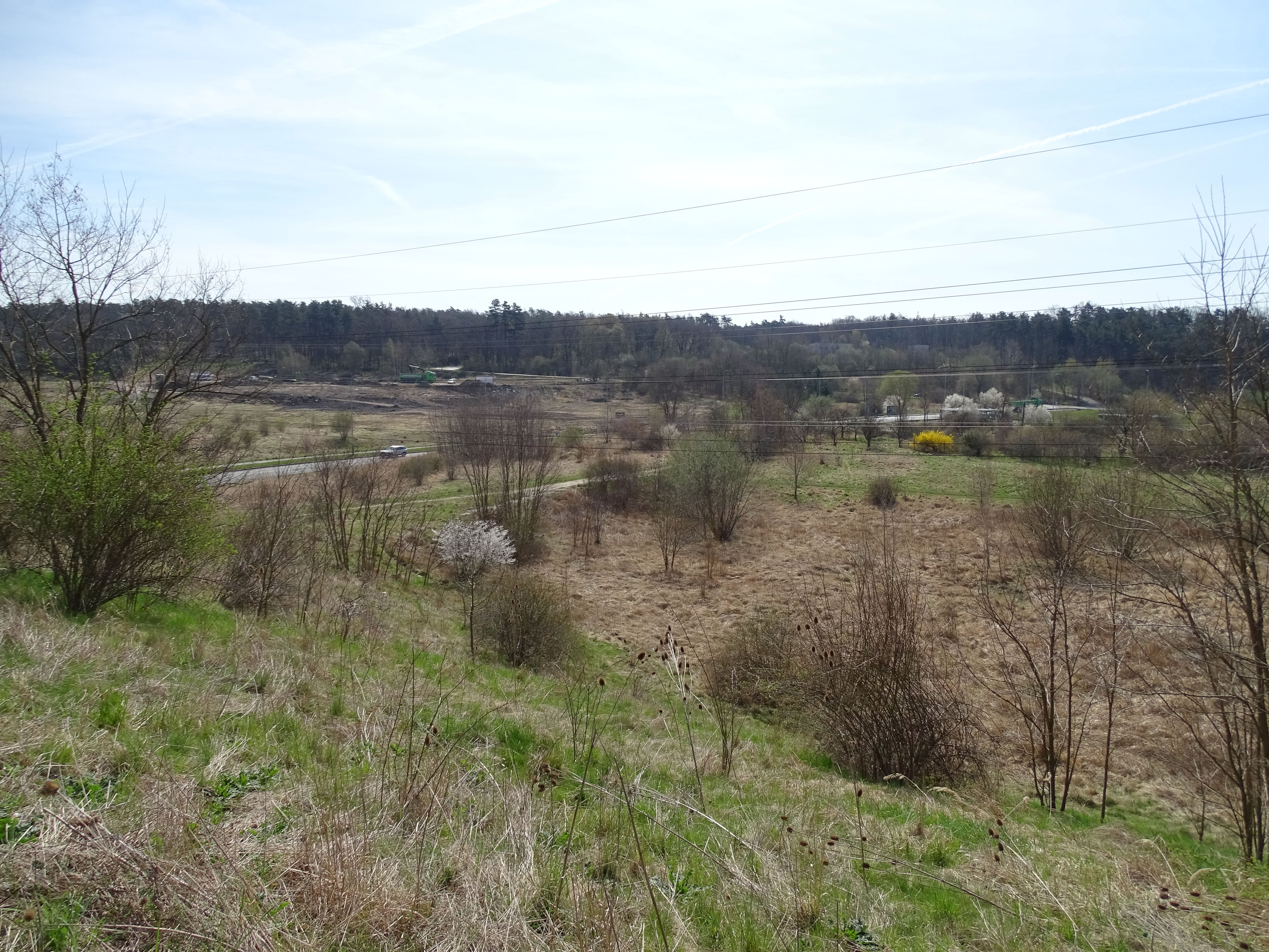 Prague-Modřany, Czech Republic. A view of Československého exilu and Hornocholupická street.